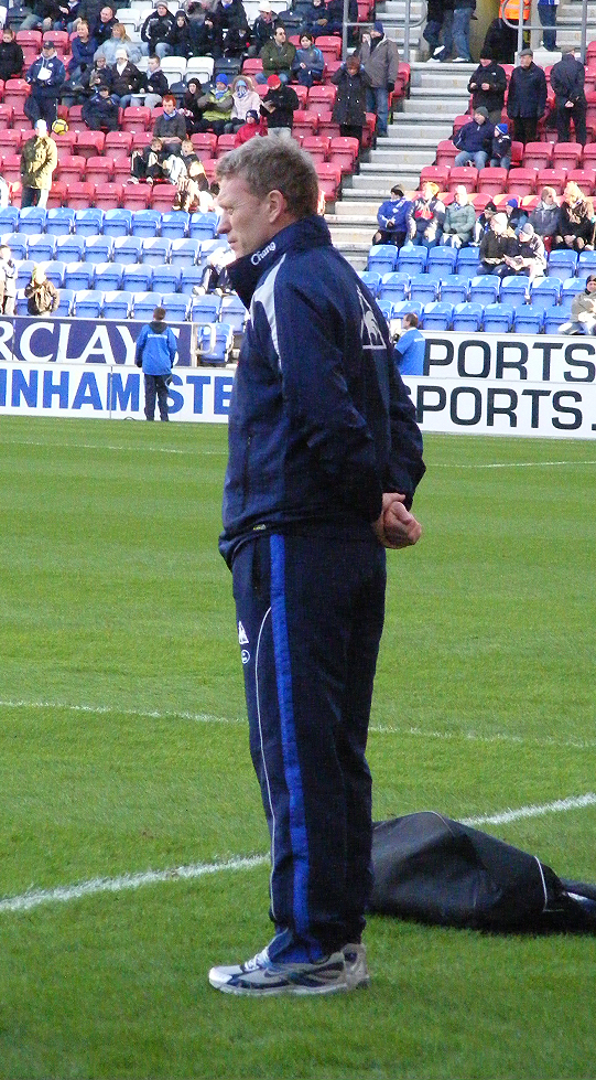 David Moyes before match between Wigan Athletic and Everton on 30th January 2010.